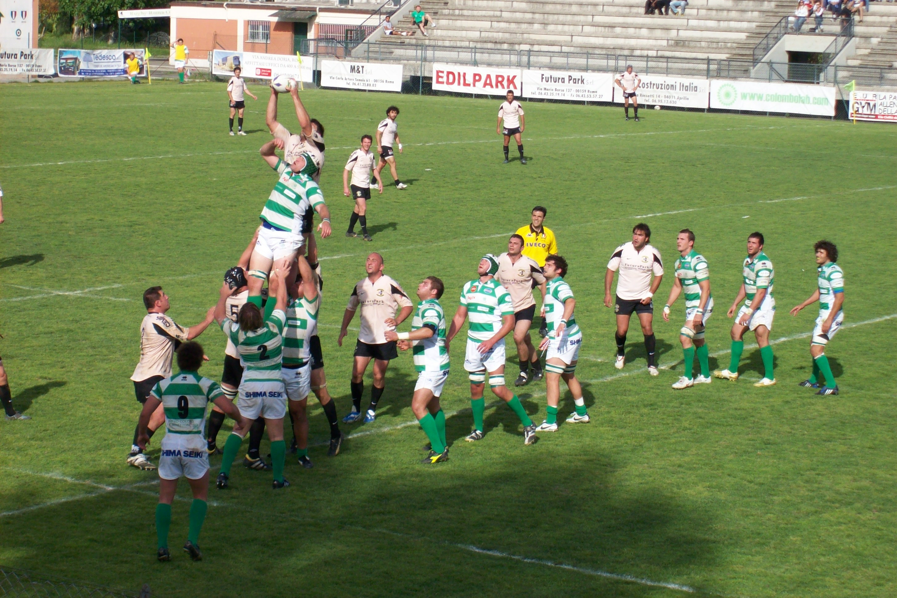 Super 10 2008-2009 — 9 May 2009, Rome, Stadio Tre Fontane. Match between: Rugby Roma — Benetton Rugby Treviso